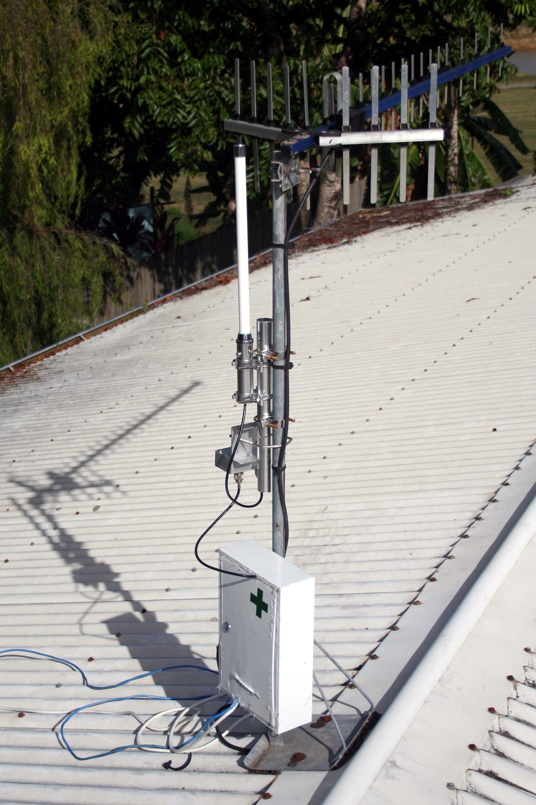 A 1 watt wifi amp and antenna setup on my roof.